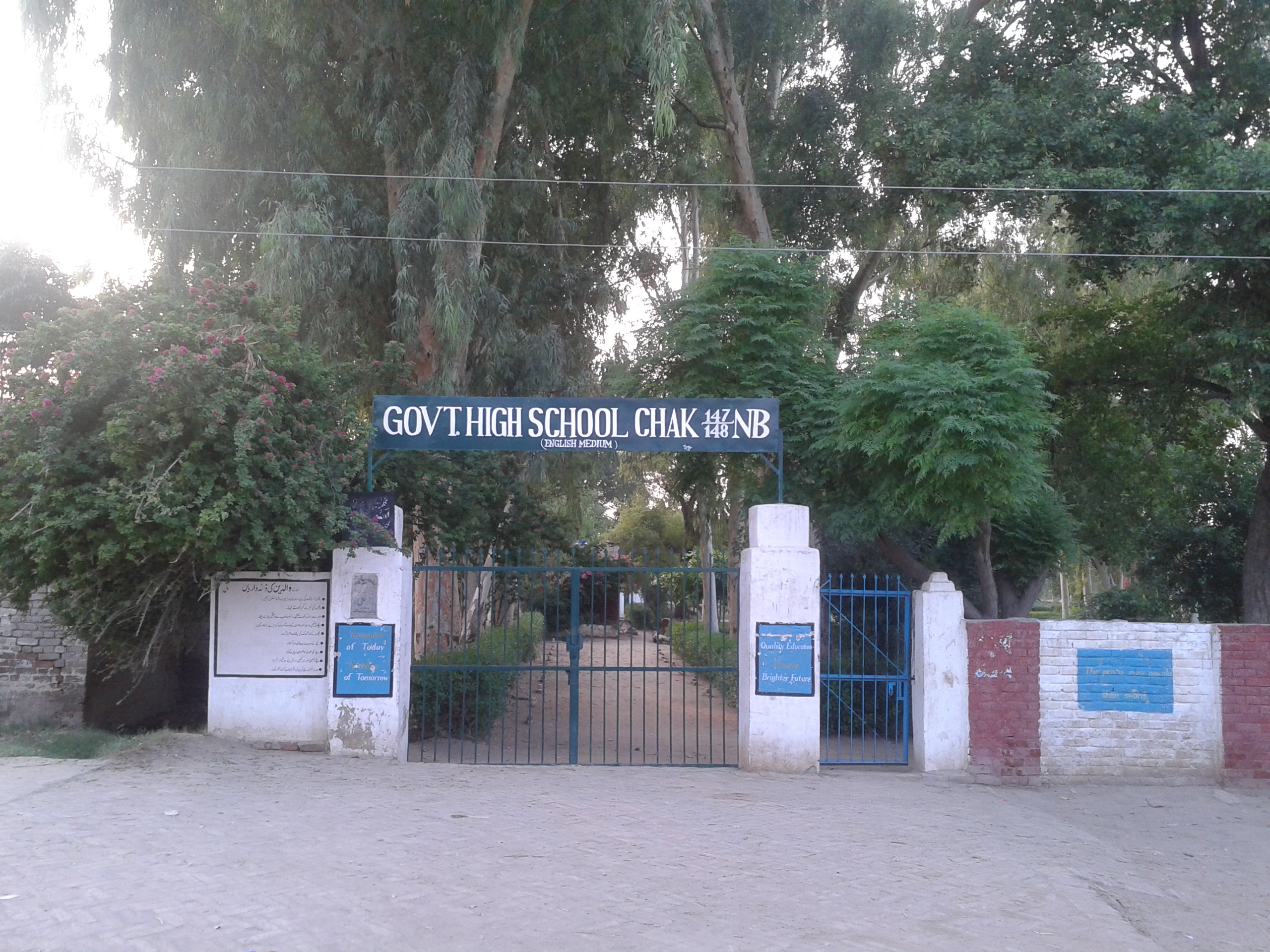 About Village page